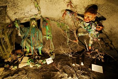 Pelhřimov, Museum of bugaboos